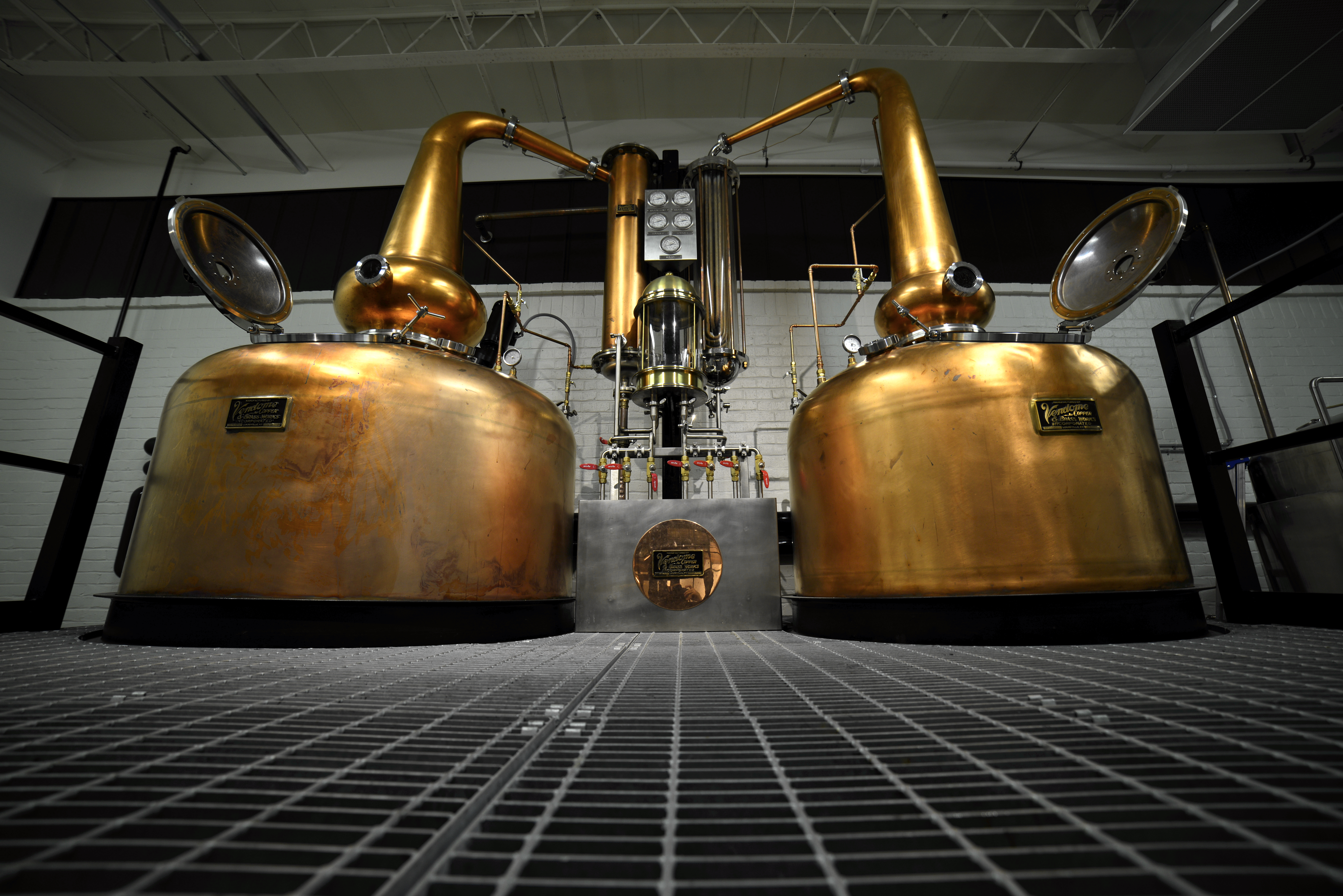 ASW Distillery's double copper pot stills, manufactured by Vendome Copper & Brass Works